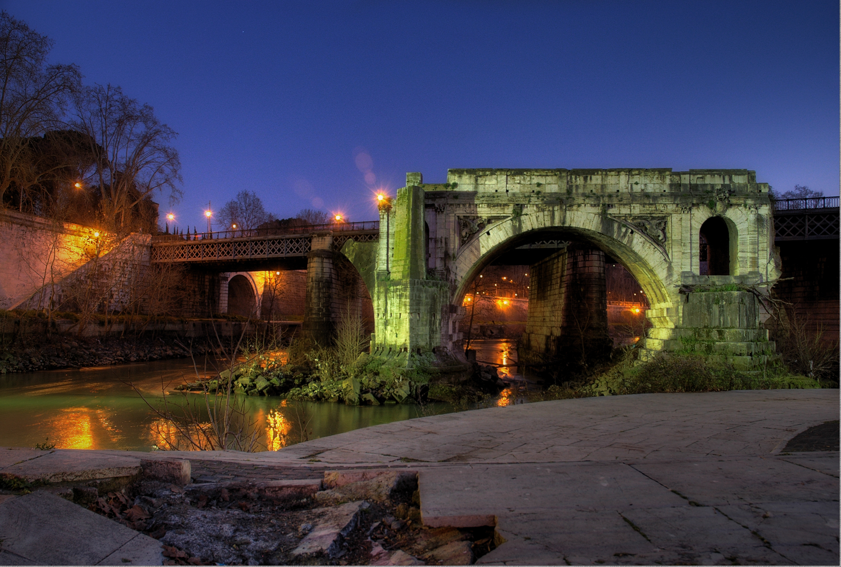 Remains of the Roman Ponte Rotto in Rome, Italy